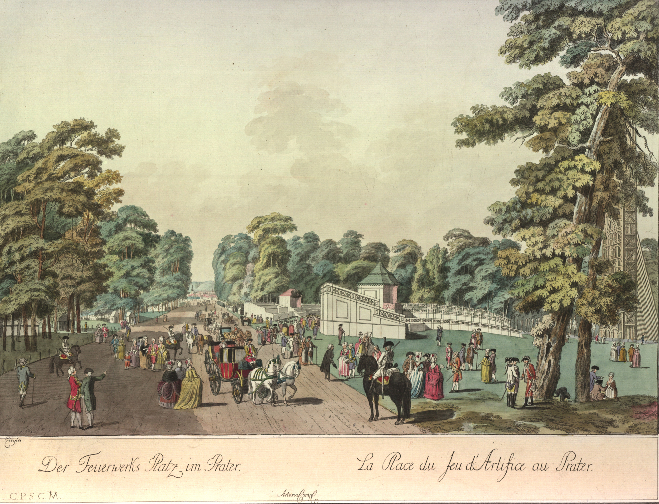 The fireworks place in the Prater. Published in: Sammlung von Aussichten der Residenzstadt Wien von ihren Vorstädten und einigen umliegenden Oertern = Collection de vues de la Ville de Vienne, de ses Fauxbourgs, et quelques Environs / gezeichnet und gestochen von Karl Schütz und von Johann Ziegler. Vienne: Artaria [1779-1784]. Collection: Wienbibliothek, Vienna